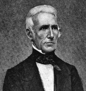 Dirck Cornelius Lansing (1785-1857) was a founder and professor at Auburn Theological Seminary in 1821. He graduated from Yale in 1804, and became a Presbyterian minister at Aburn New York.